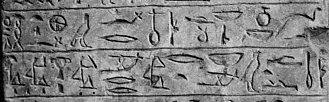 Egyptian hieroglyphs: a fragment of the stele number 31 664 from Field Museum of Natural History (Chicago). Fragment of stela of the Middle Kingdom